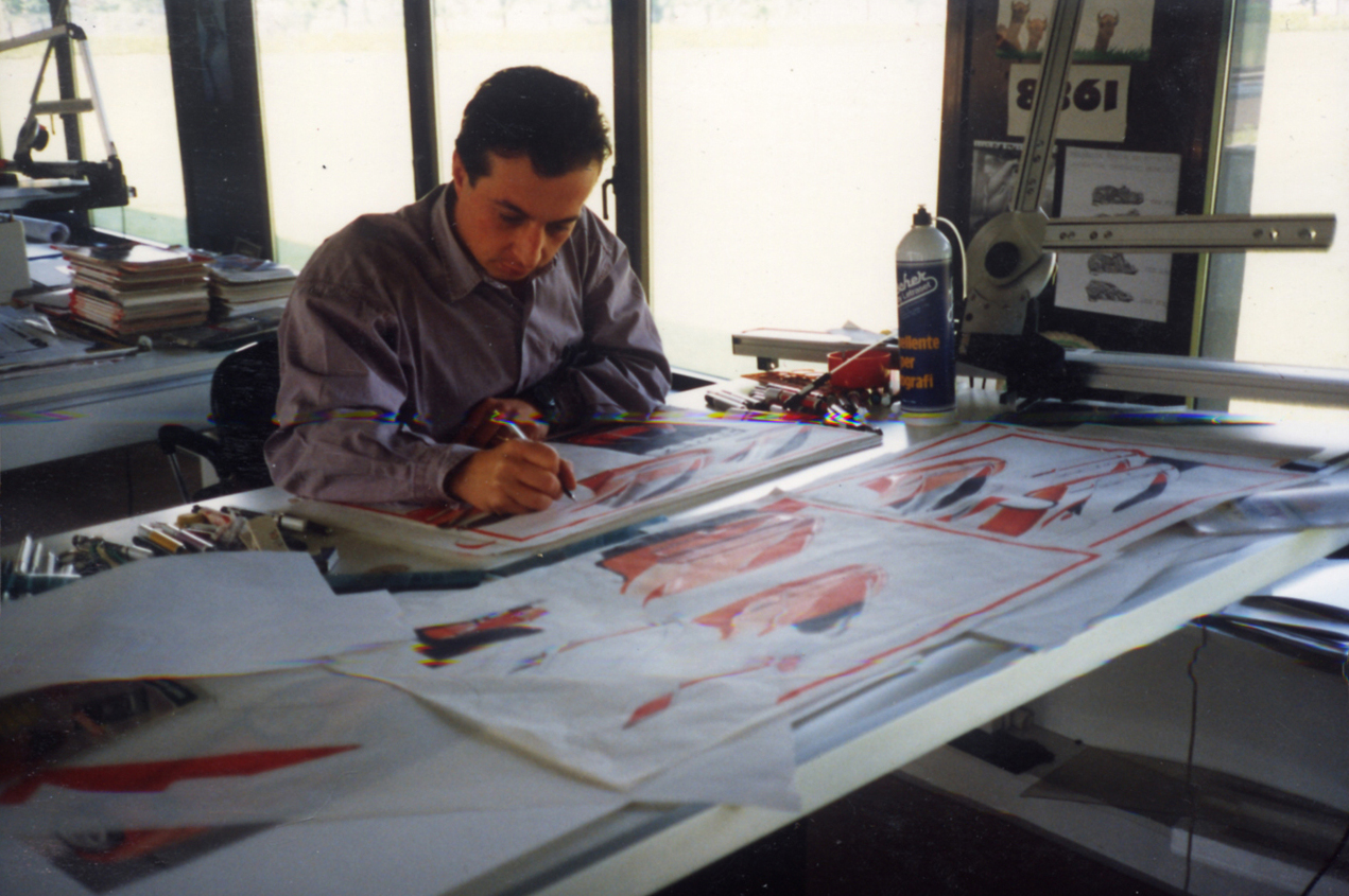 Pietro Camardella at his table to Study and Research Center Pininfarina Cambiano, while creating the MYTHOS concept in November 1988